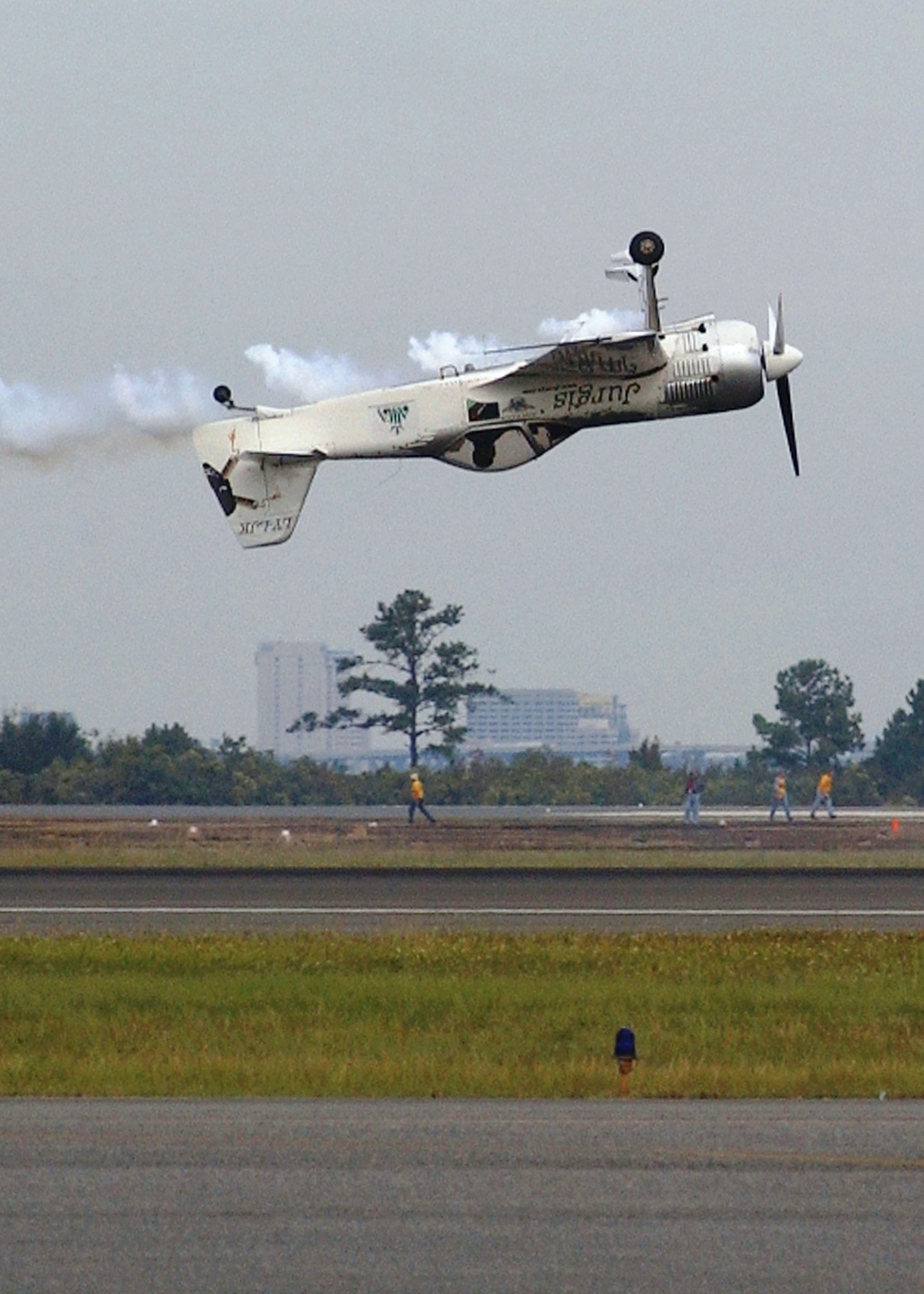 A Sukhoi Su-31 "Kaibutsu" aircraft flown by Lithuanian world champion Jurgis Kairys entertains the crowd with a series of aerobatic stunts, hair-raising near collisions, and death-defying maneuvers all set to a chorus of intricate ground pyrotechnical effects during the practice air show at Naval Air Station Jacksonville, Fla., October 27th, 2006.